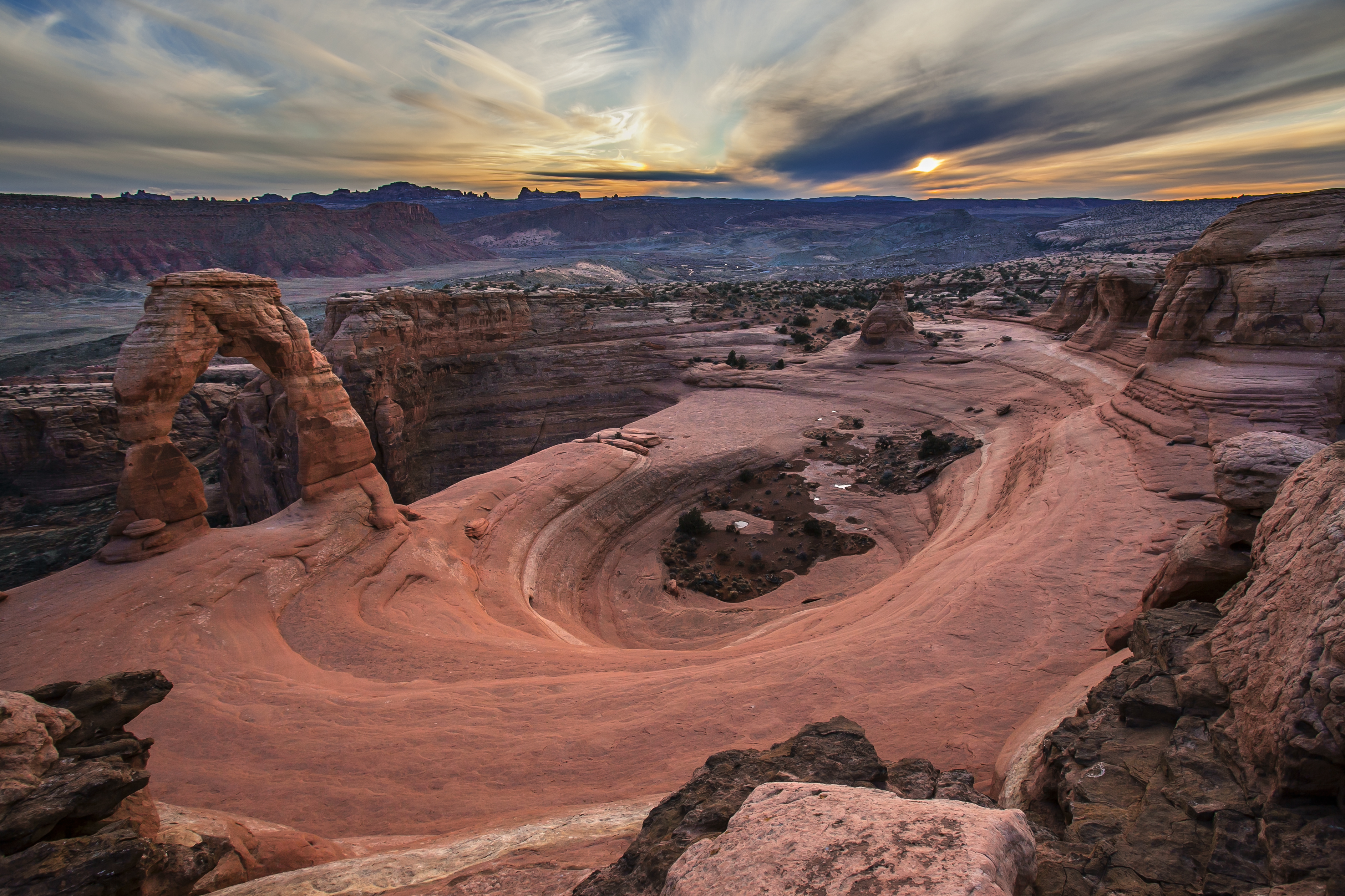 (NPS Photo by Jacob W. Frank)